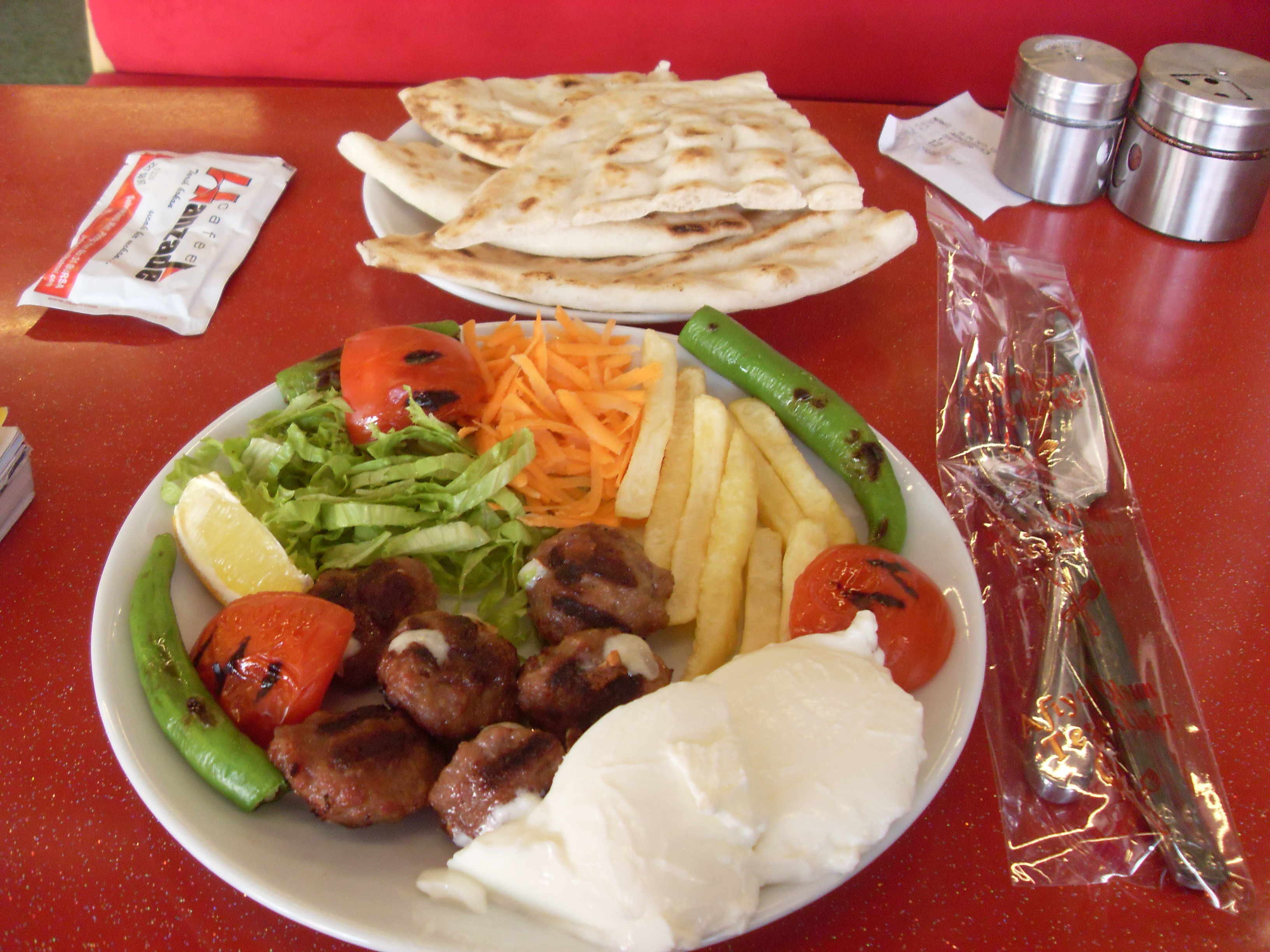 This is İnegöl meatballs taken in Kapalı çarşı in Bursa.